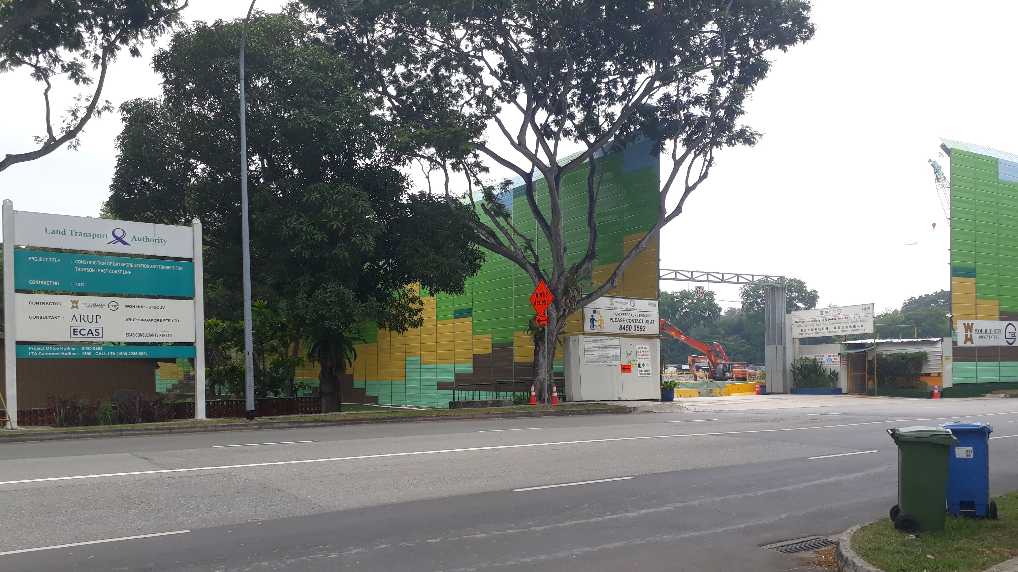 Bayshore Construction site entrance